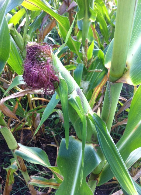 Husk leaves (aka Flag leaves) on Maize are typical of temperate sweet corns. Tropical sweet corns and most field corns lack or have very reduced husk leaves.